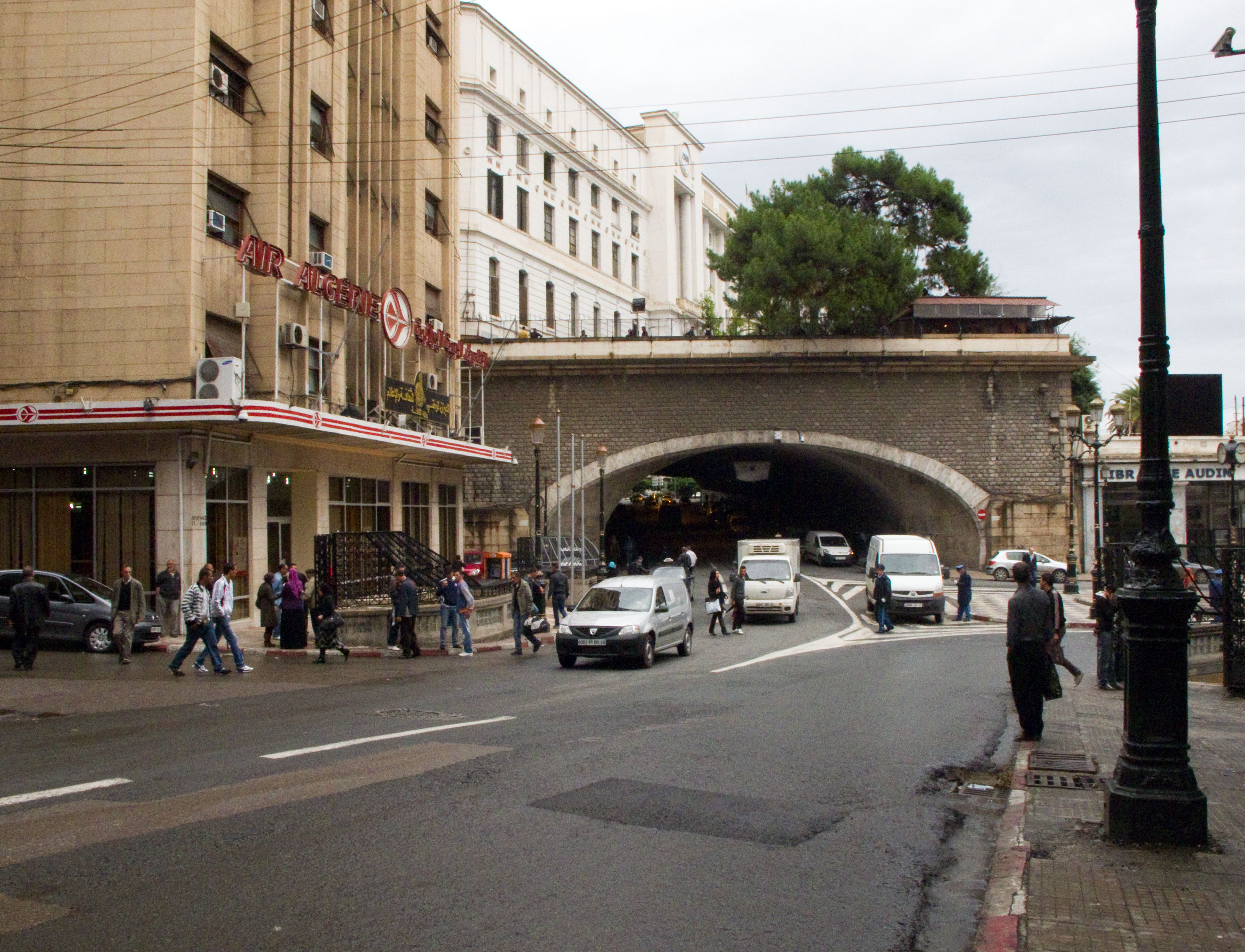 Tunel des Facultés and Immeuble El-Djazair, the head office of Air Algérie - Place Maurice Audin. Algiers, Algeria.